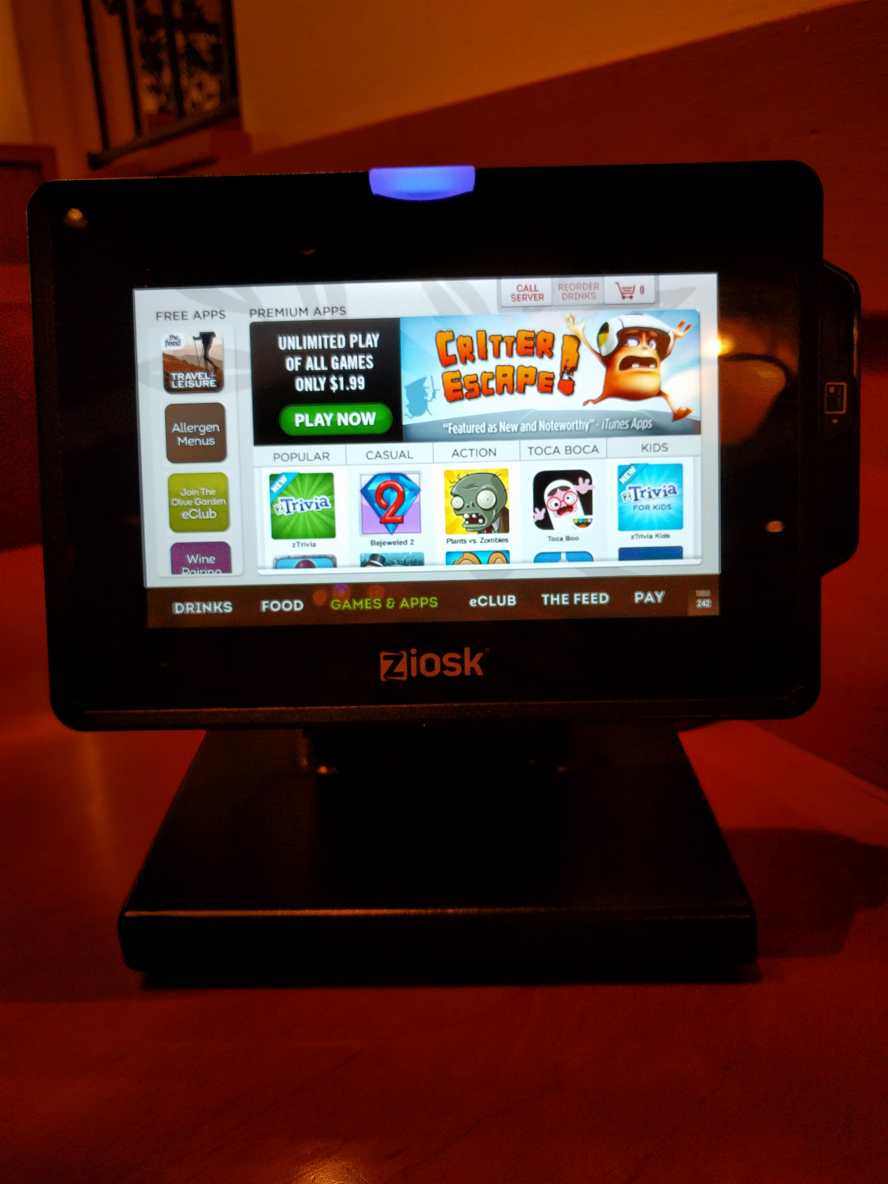 The games page on a first gen. Ziosk table ordering tablet at an Olive Garden